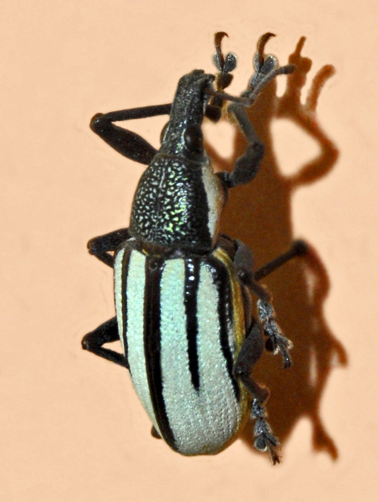 Diaprepes abbreviatus. Mounted specimen on display at the Museo Civico di Storia Naturale di Milano